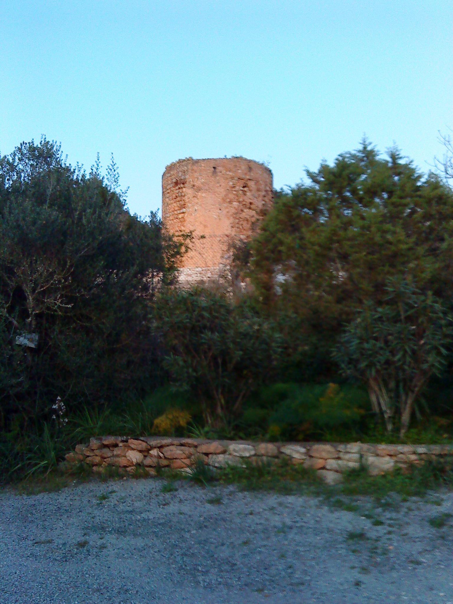 Rural defense tower of Atzaró, Eivissa island, Spain.